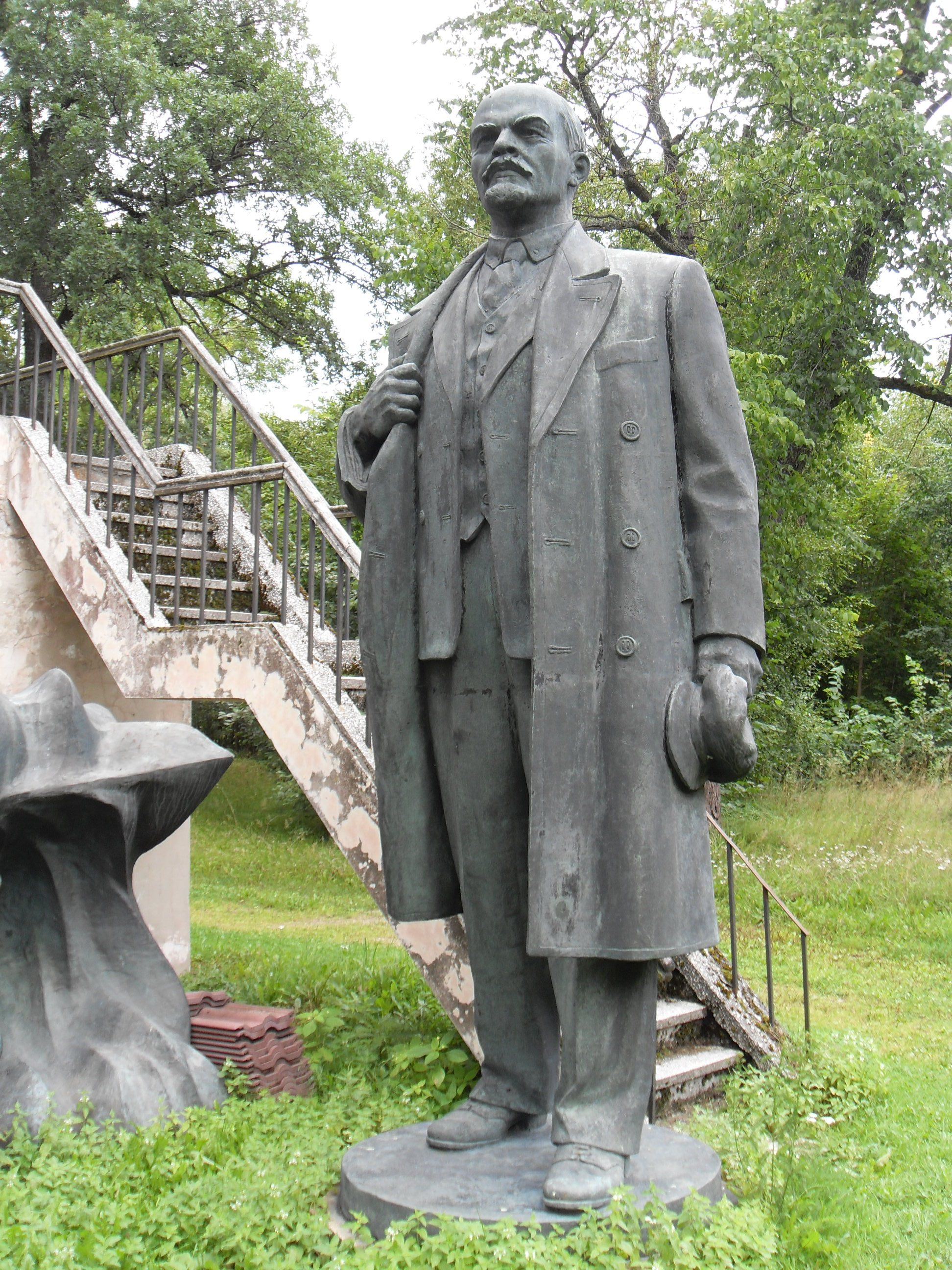 Forgoten Lenin statue at the backyard of the Estonian History Museum at the Maarjamaë Palace. The backyard of the palace has become a graveyard for soviet statues which were too big to be displaied at the Occupations Museum in the center of Tallinn. Most of the forgotten soviet statues have been vandalized and are brocken with missing parts. They lie down on the grass, gathering moss and getting slowly roasted. Only the about 4 meter high statue of Lenin is still standing, looking at the pile of other damaged soviet statues.